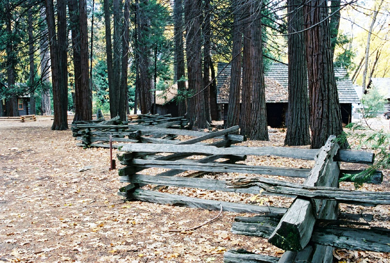 Split rail fencing Yosemite Valley alongside old cemetery, Yosemite National Park.